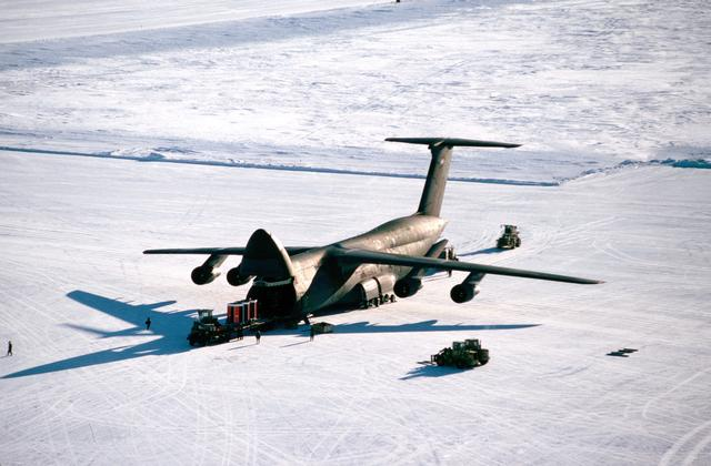 Sourced from: Details: ID: DFST9010236 Service Depicted: Air Force Cargo is unloaded from a C-5B Galaxy aircraft following its landing on the ice runway near McMurdo Station during Operation DEEP FREEZE '90. The Galaxy is the second such aircraft to land on the runway, which is over 10,000 feet long and was scraped from ice over eight feet deep. Camera Operator: MASTER SERGEANT JOSE LOPEZ JR. Date Shot: 5 Oct 1989